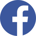 Facebook William Aditya Sarana